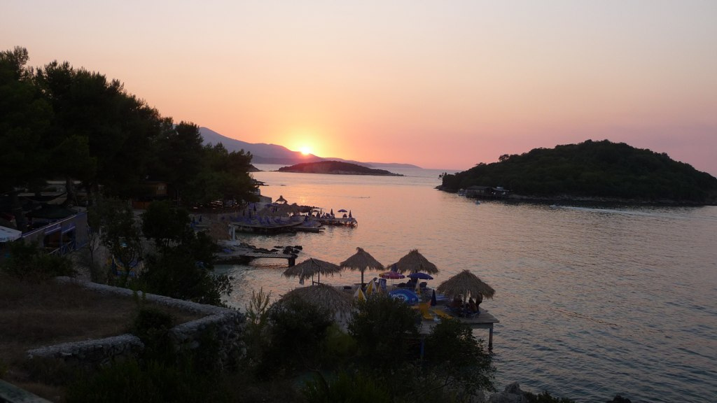 Ksamamil Islands